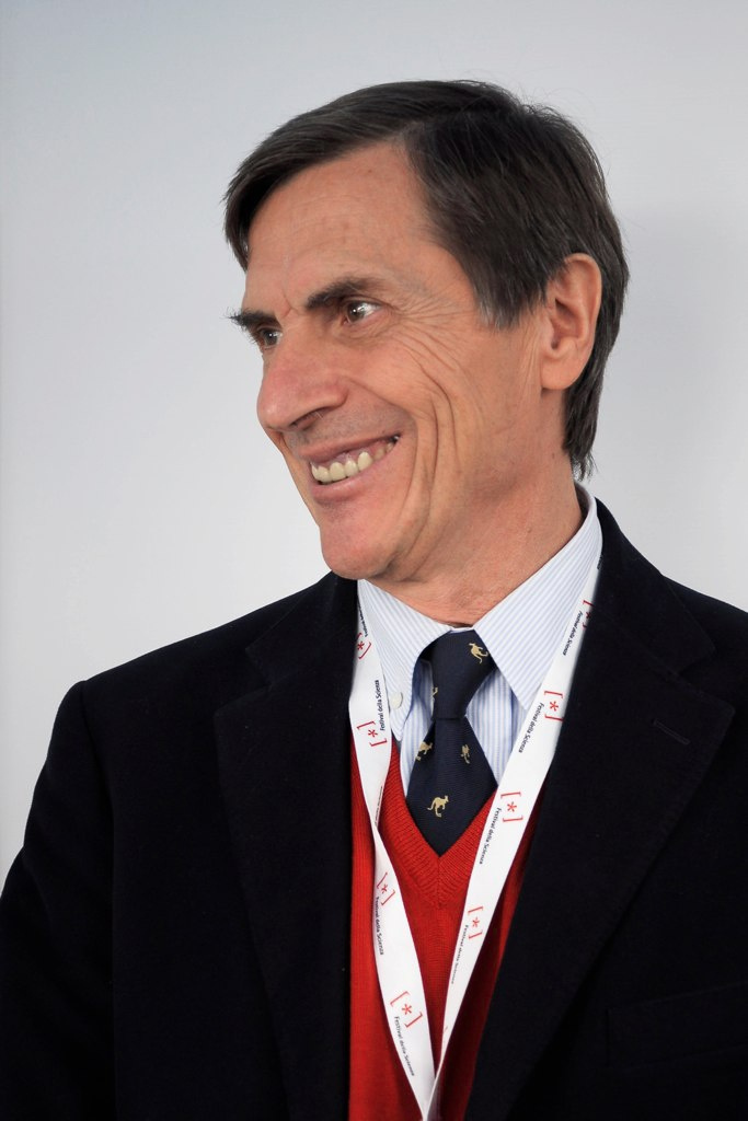 Alberto Mantovani at 2011 Science Festival in Genoa